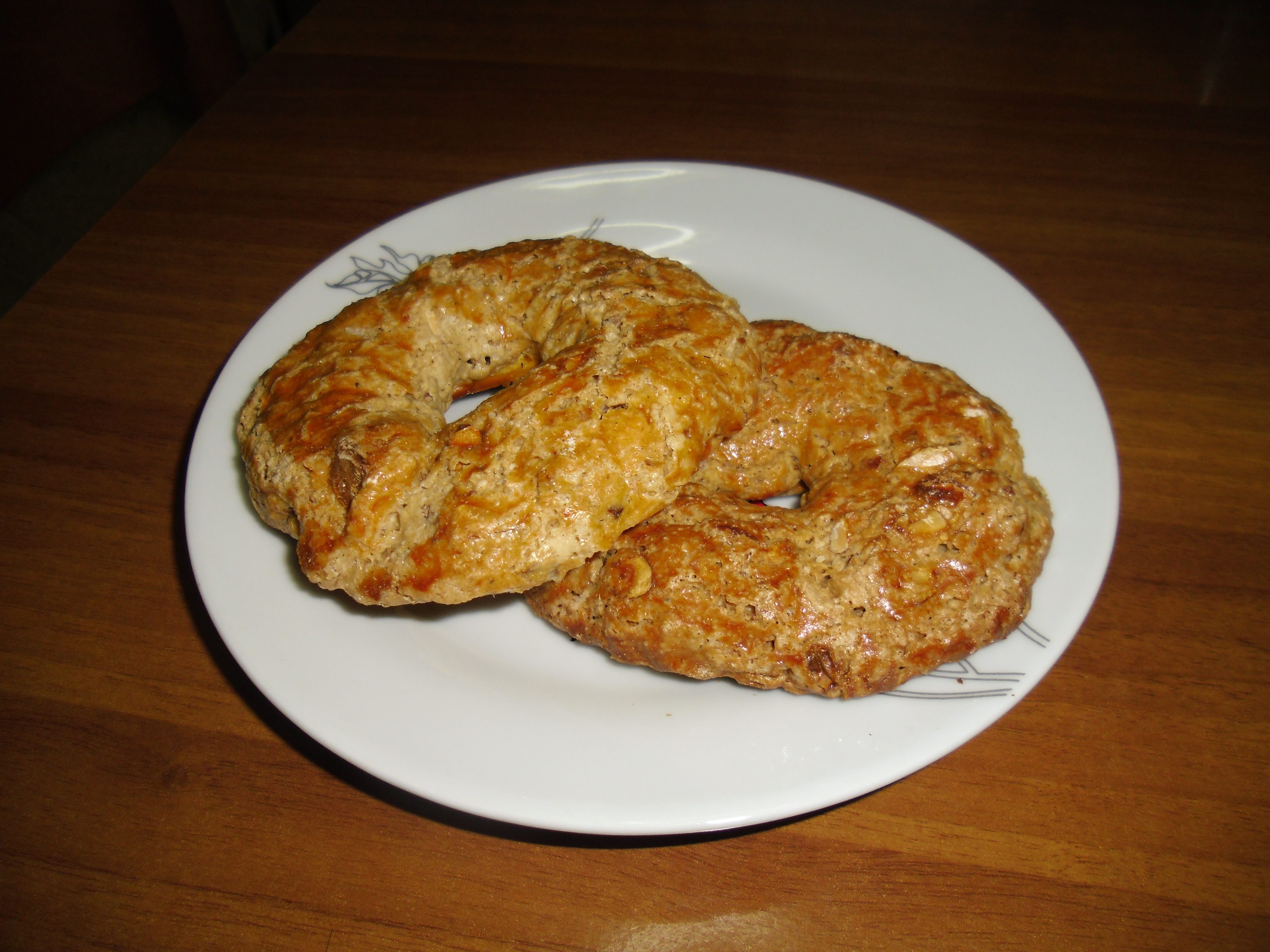 Two roccocò. A neapolitan typical christmas pastry.